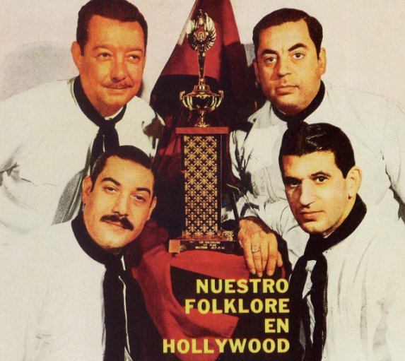 Los Chalchaleros. Folk group. Argentina